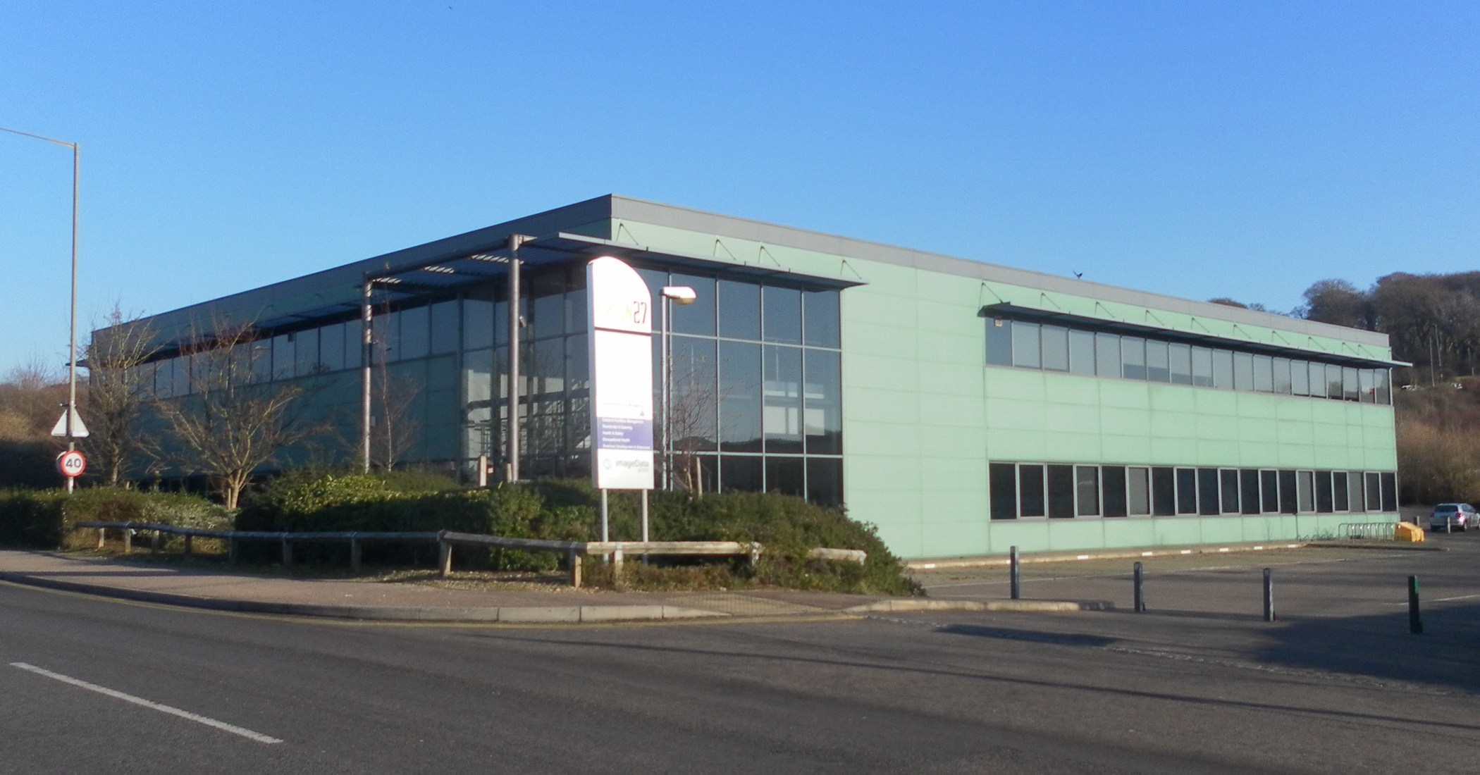 Exion 27, Crowhurst Road, Hollingbury, City of Brighton and Hove, England. Brighton's first "ultramodern" commercial/industrial mixed-use building dates from 2001. It has never been used for its original purpose; after several years standing empty, it is now used by the University of Brighton.